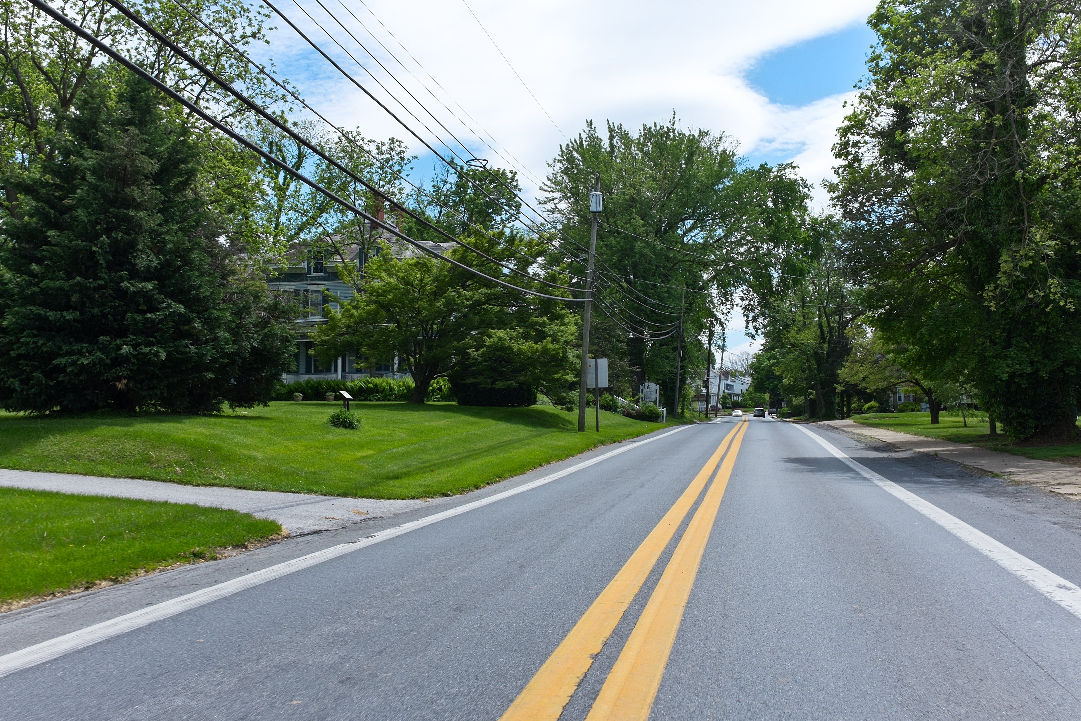 Buckeystown MD, Frederick County